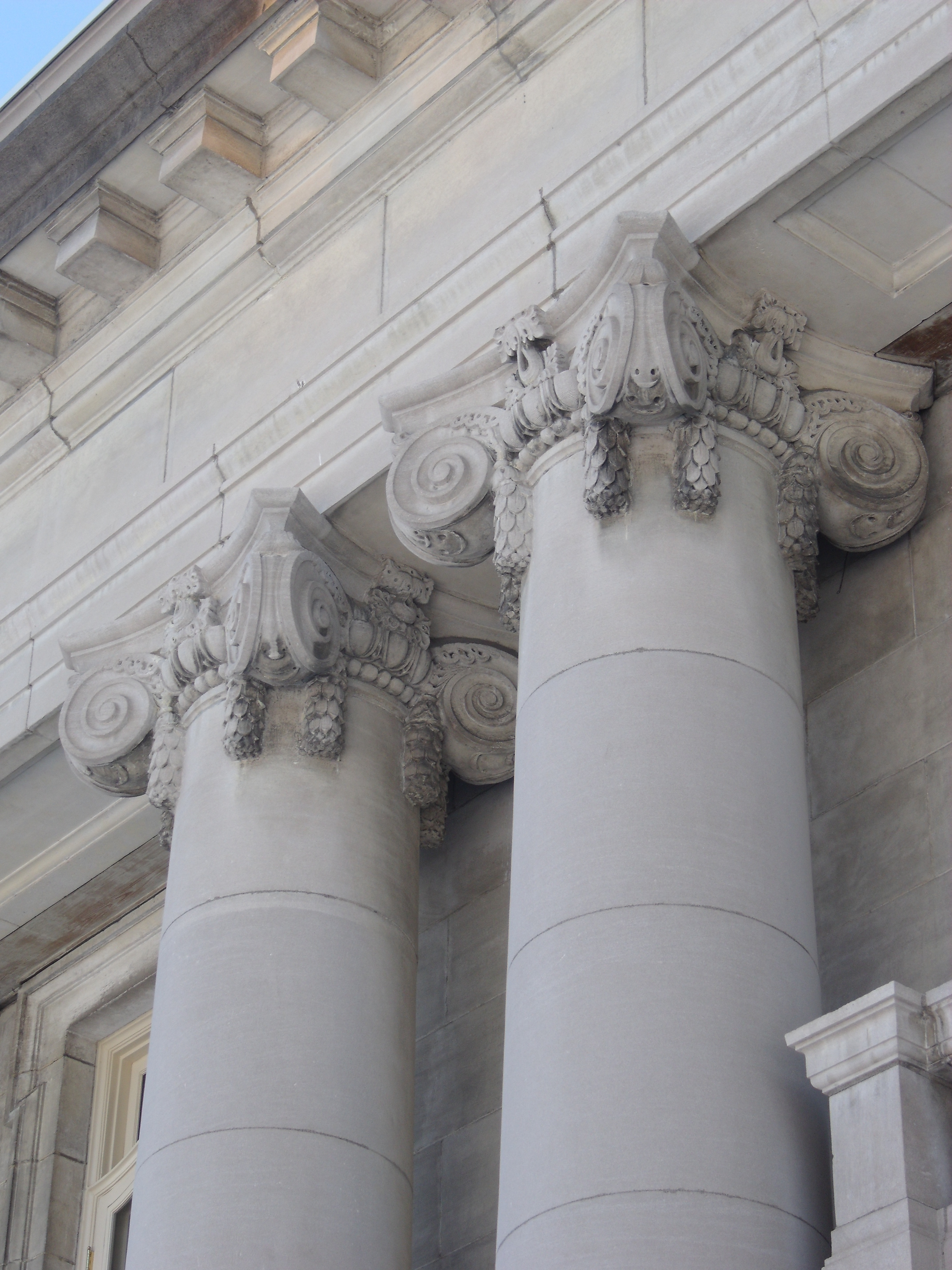 Details of the Ionic colums, 4040 Sherbrooke Street East, Montreal, Quebec, Canada.